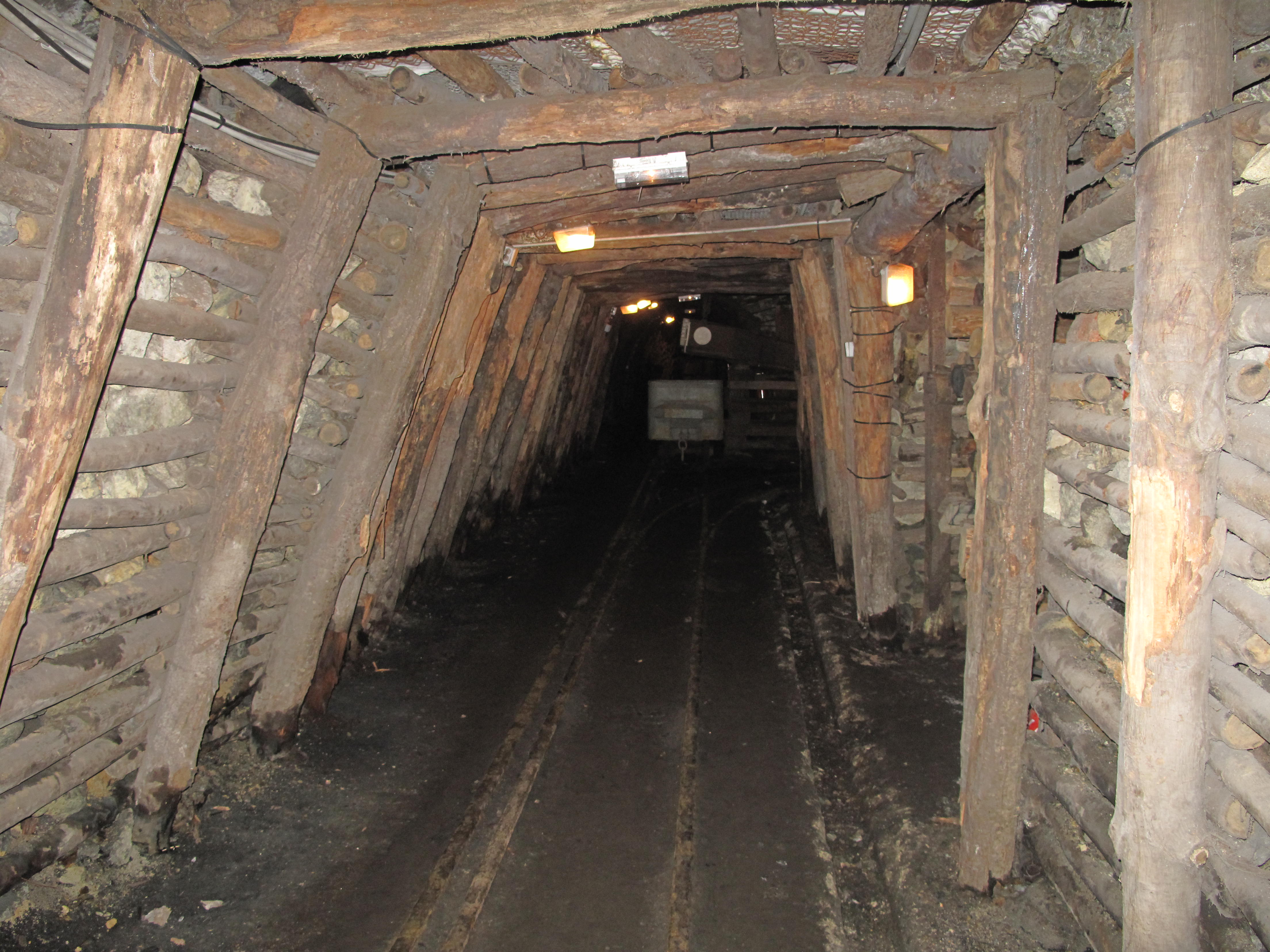 Underground coal mine in Alès, France